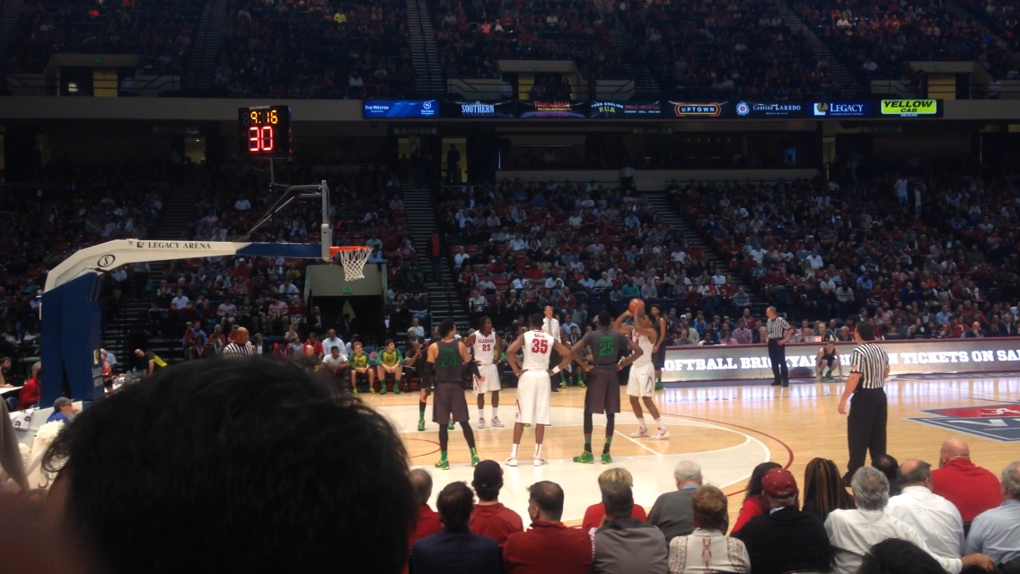 Arthur Edwards (#4) of Alabama attempts a free in a game against Oregon at Legacy Arena